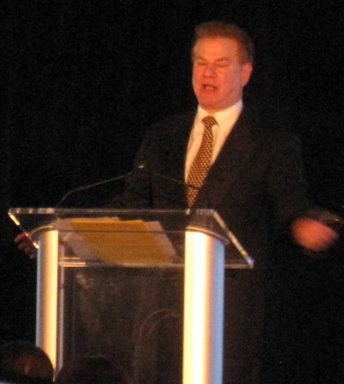 Robert Wuhl at the Freddie Awards.